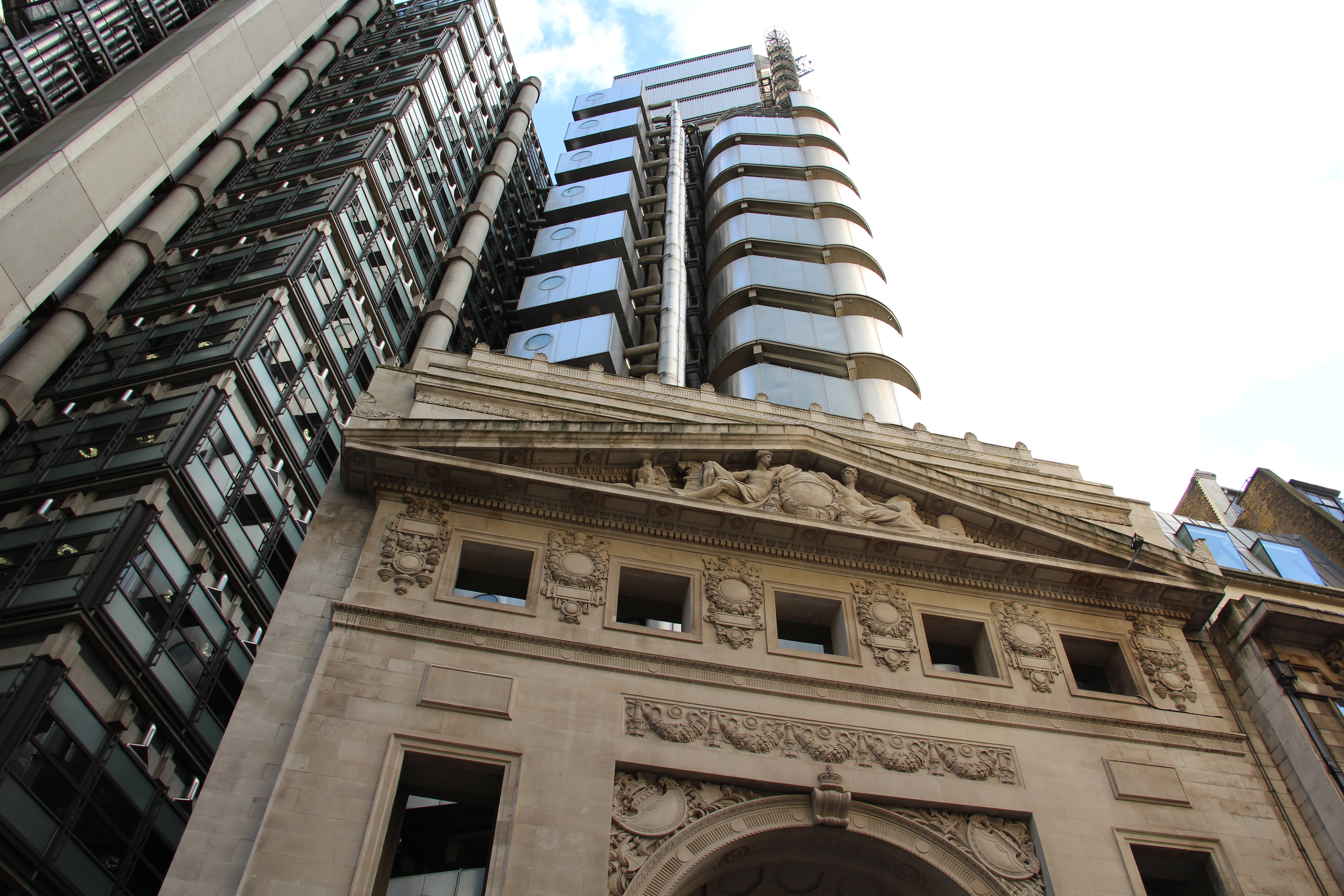 Lime Street The Lloyd's building (sometimes known as the Inside-Out Building) is the home of the insurance institution Lloyd's of London. It is located on the former site of East India House in Lime Street, in London's main financial district. The building is a leading example of radical Bowellism architecture in which the services for the building, such as ducts and lifts, are located on the exterior to maximise space in the interior. Arch. Richard Rogers 1978-86.